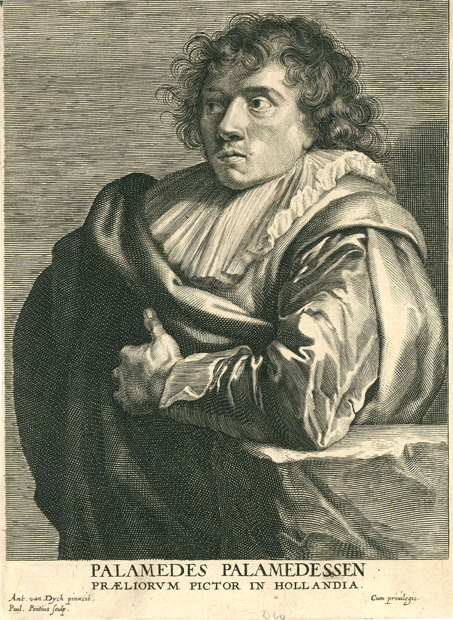 Portrait of Palamedes Palamedesz. for Anthony van Dyck's Iconografia